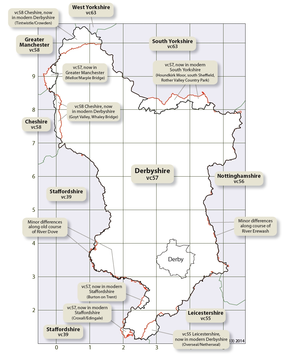 Created for use in The Flora of Derbyshire (2015) - to whom this image should be credited - this map shows the major and minor differences between the modern-day, ceremonial, boundary of Derbyshire, and the Watsonian vice-county of Derbyshire (vc57) and of adjacent vice counties. Note: This work was created me, Parkywiki, using OpenSource map data, and that I am author of the Flora of Derbyshire and creator of all its mapped content. I request that any image acknowledgement is given to "The Flora of Derbyshire (2015)" and not to me via my username.